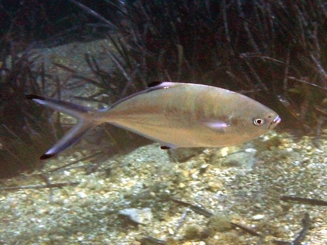 Trachinotus ovatus photographed near Alonissos (Greece). Photo by Roberto Pillon.